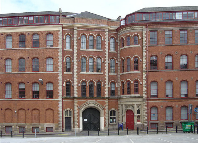 Adams Building, Lace Market Former Lace factory, now part of New College Nottingham. Building development means that this view is no longer available.